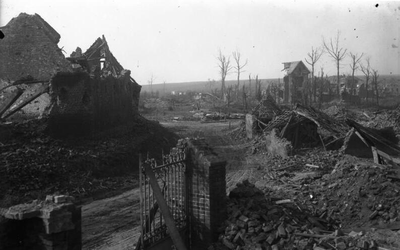 Moevres, Gesamtansicht (15. März 1918) Information added by Wikimedia users.